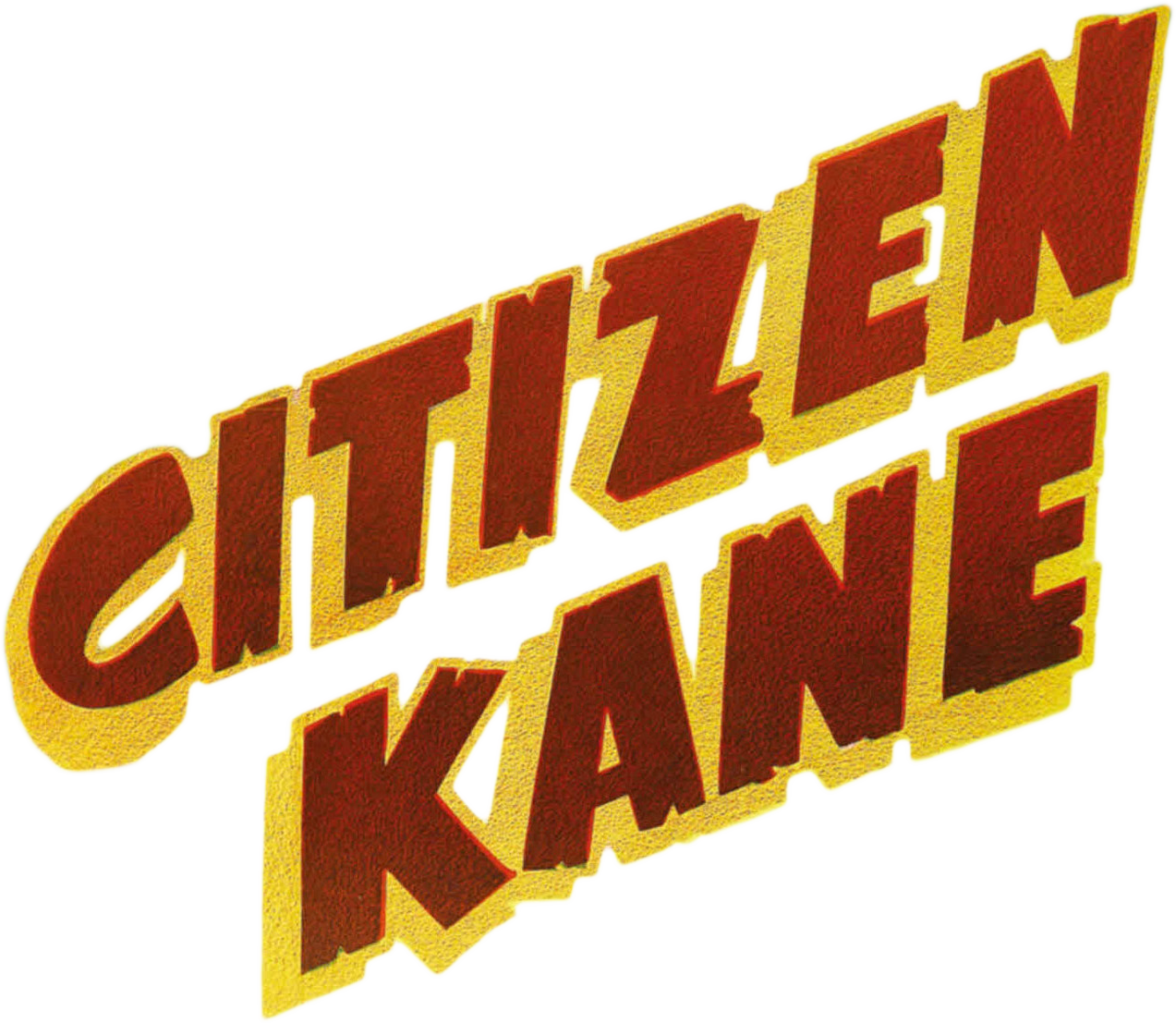 Logo for the film Citizen Kane (from the "Style B" poster).